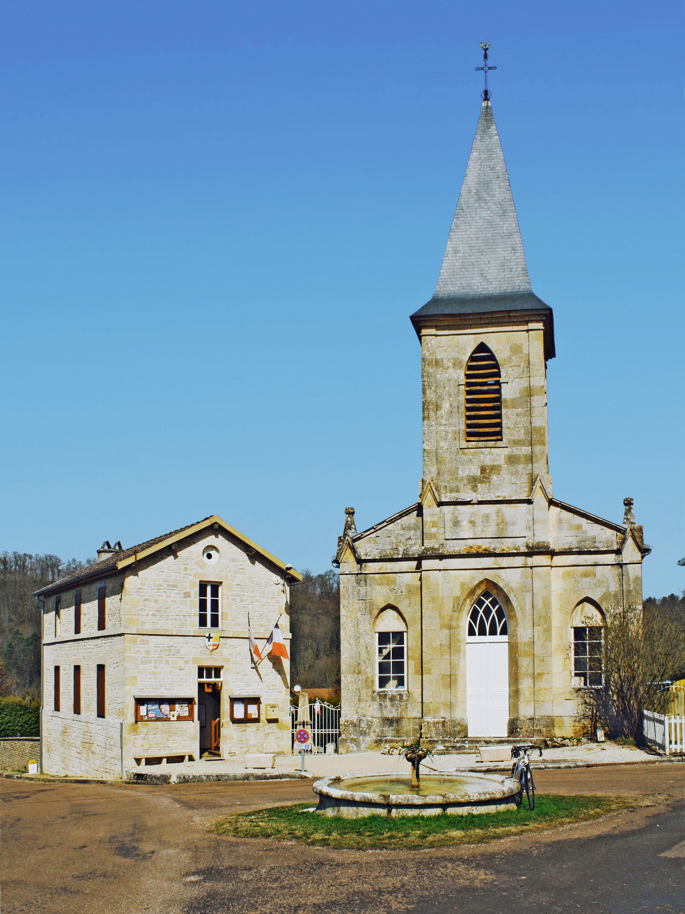 Townhall and church of Busseaut